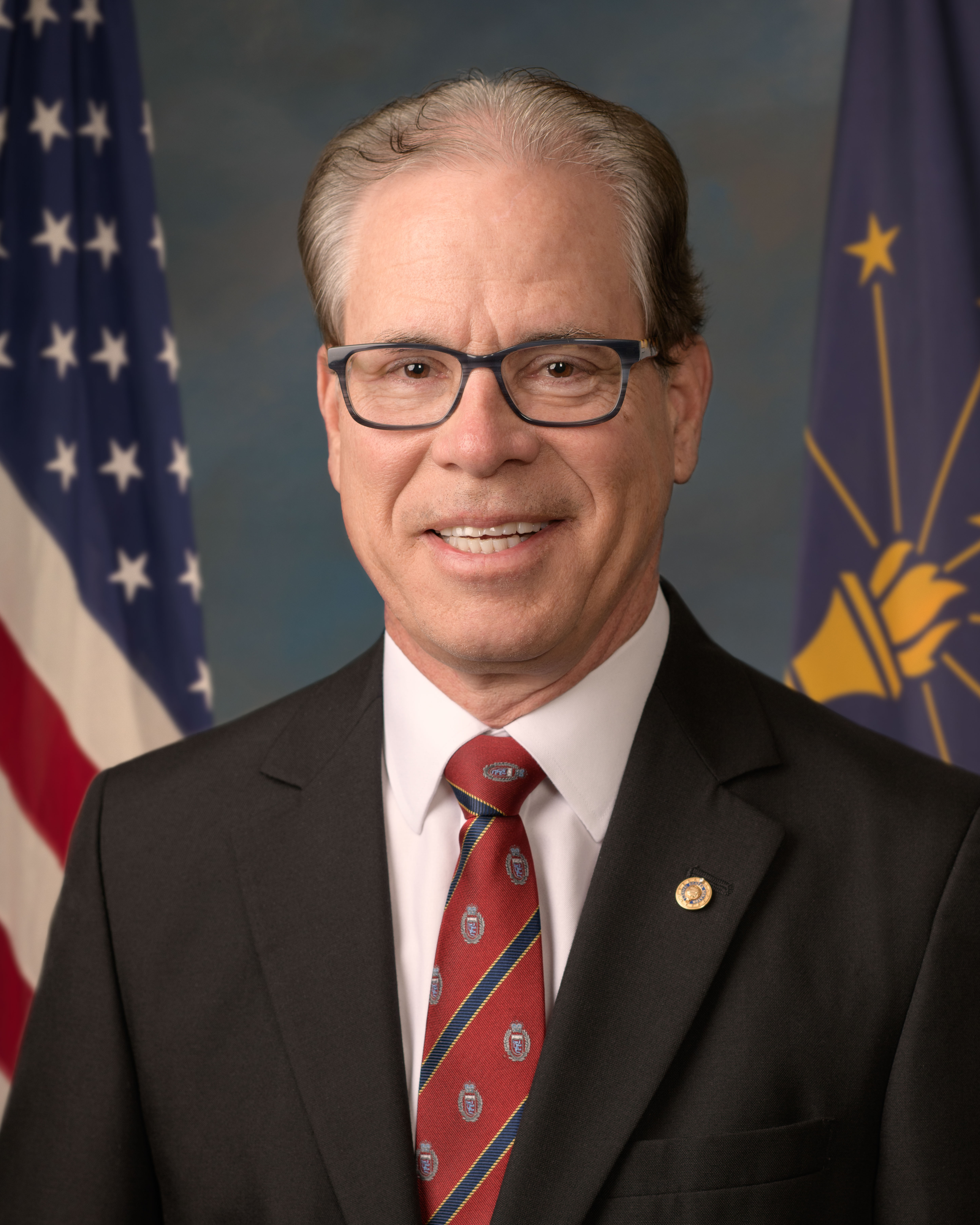 Sen. Mike Braun (R-IN) official Senate Portrait (small)